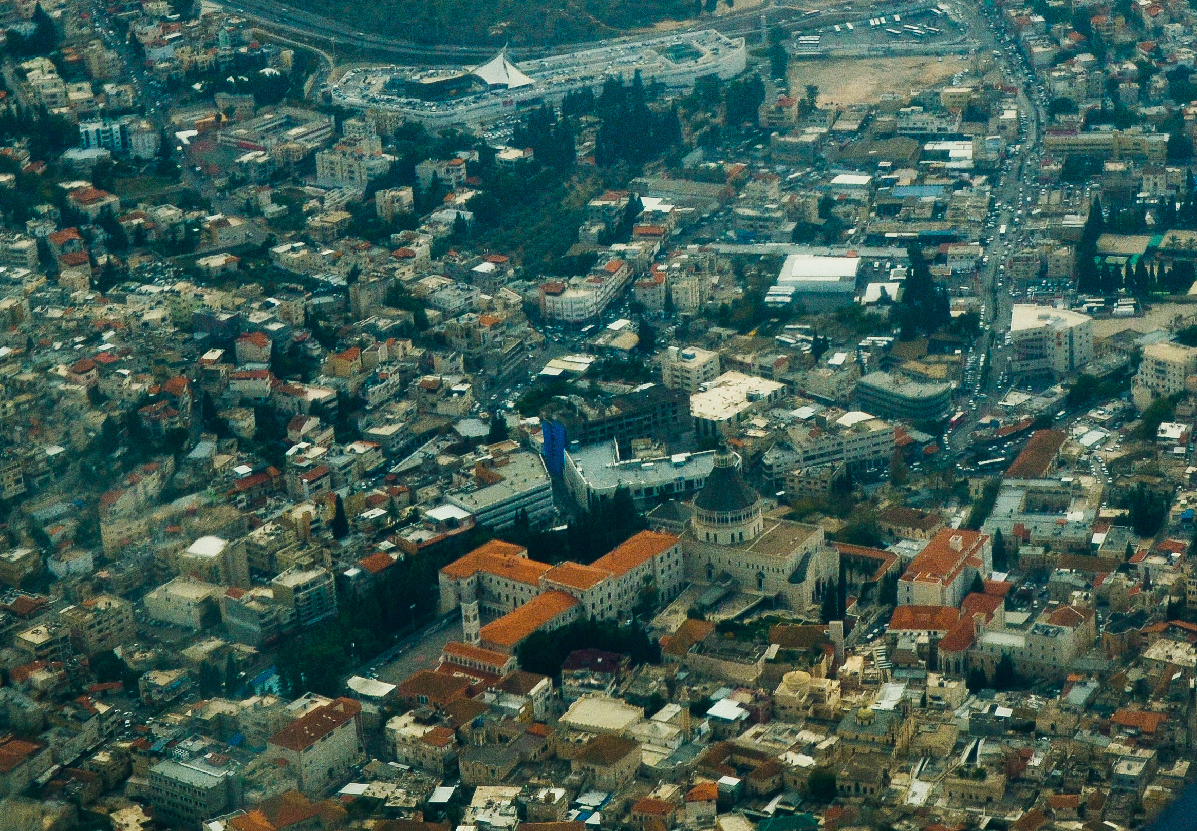 Shot taken from plane flown by Ilan Maytal